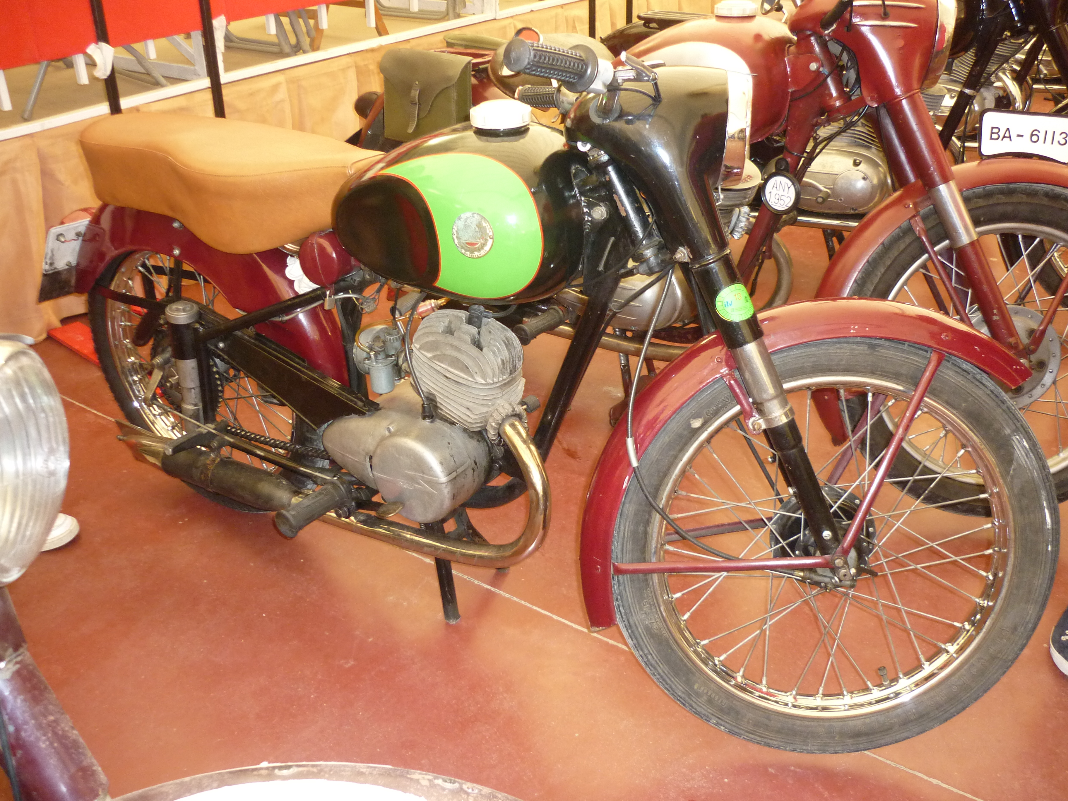 Derbi 95cc (about 1955).Motorcycle meeting held on September 10, 2011 in Can Carrancà (near the Derbi factory in Martorelles, Catalonia).